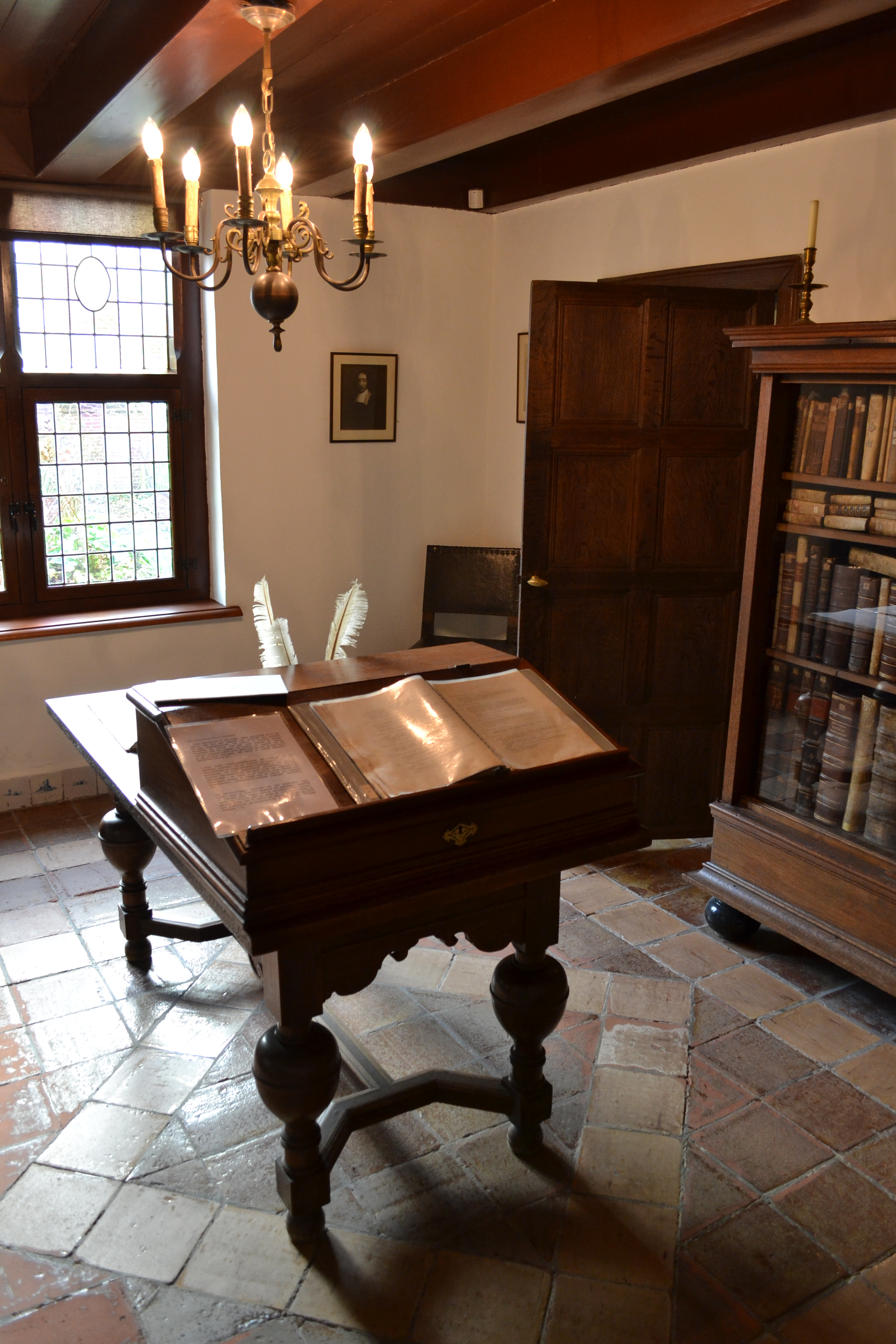 The main room in the Spinozahuis in Rijnsburg, where the appearance of Spinoza's study has been reconstructed.